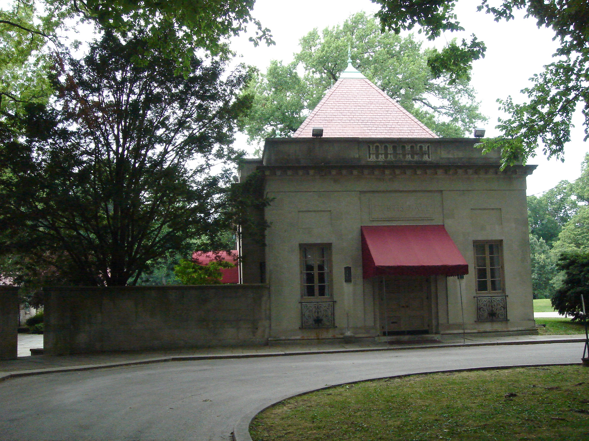 Front of Curtis Hall in Wyncote, PA, USA